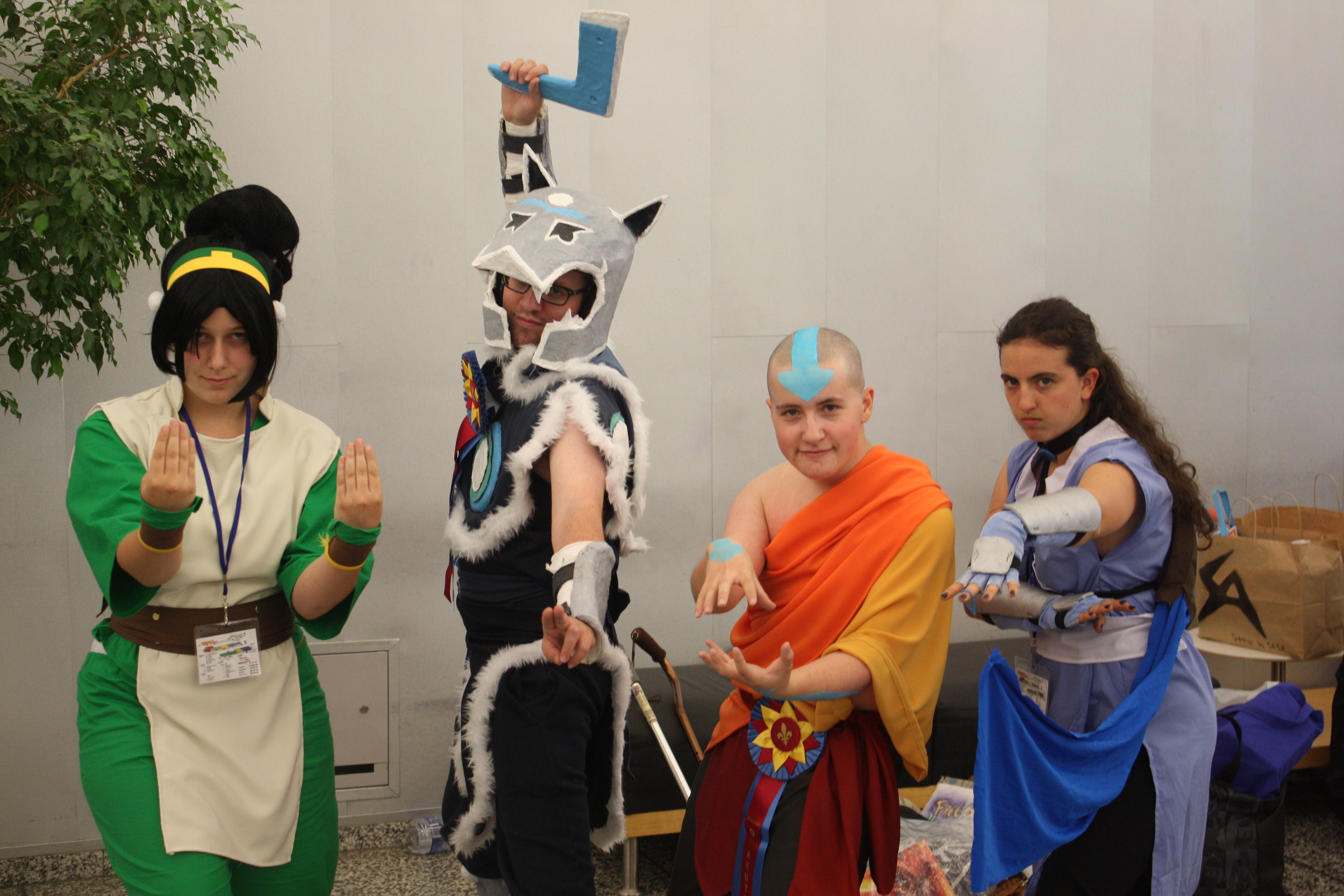 Otakuthon 2014: Avatar The Last Airbender